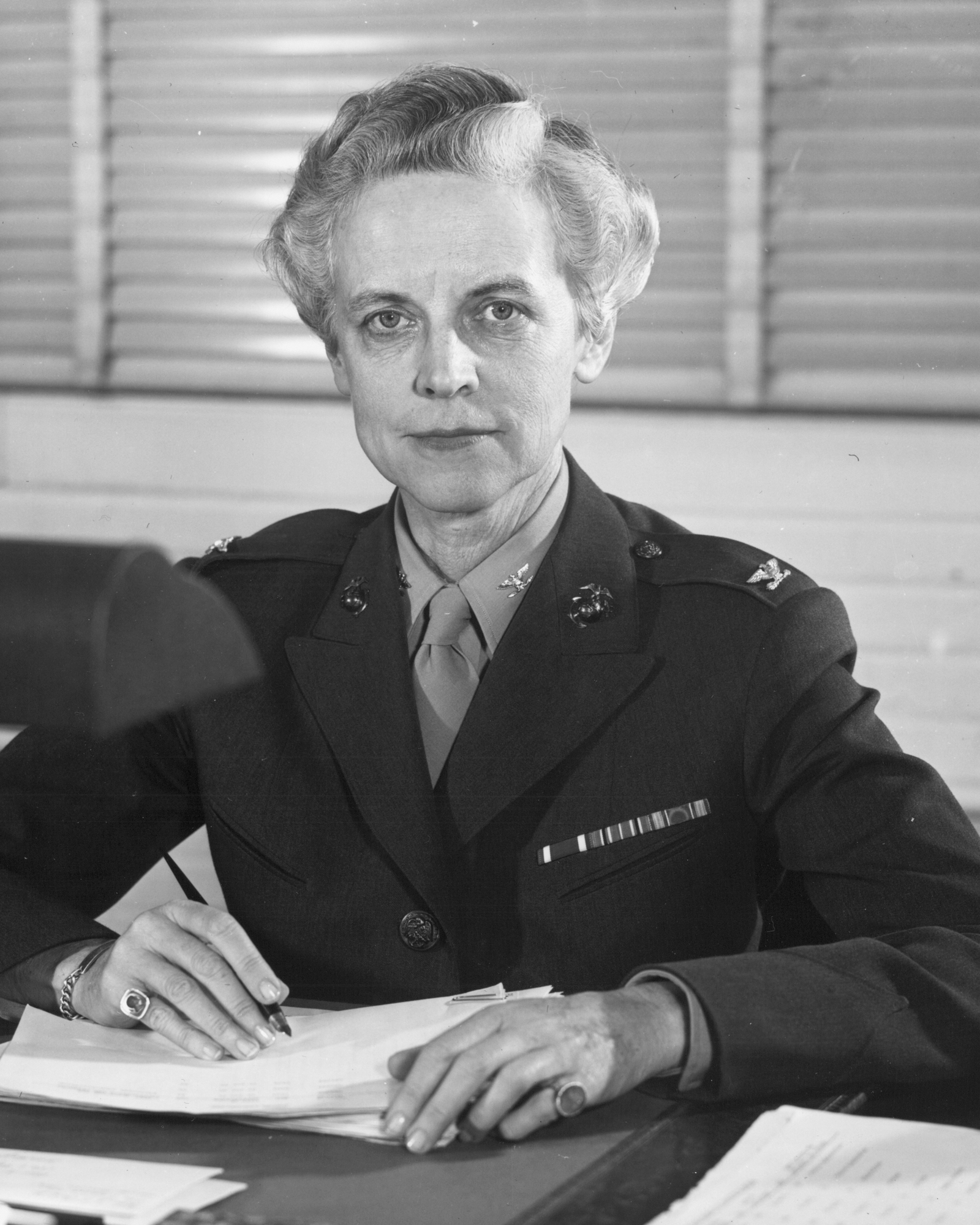 Colonel Katherine A. Towel, USMC - first Director of Women Marines